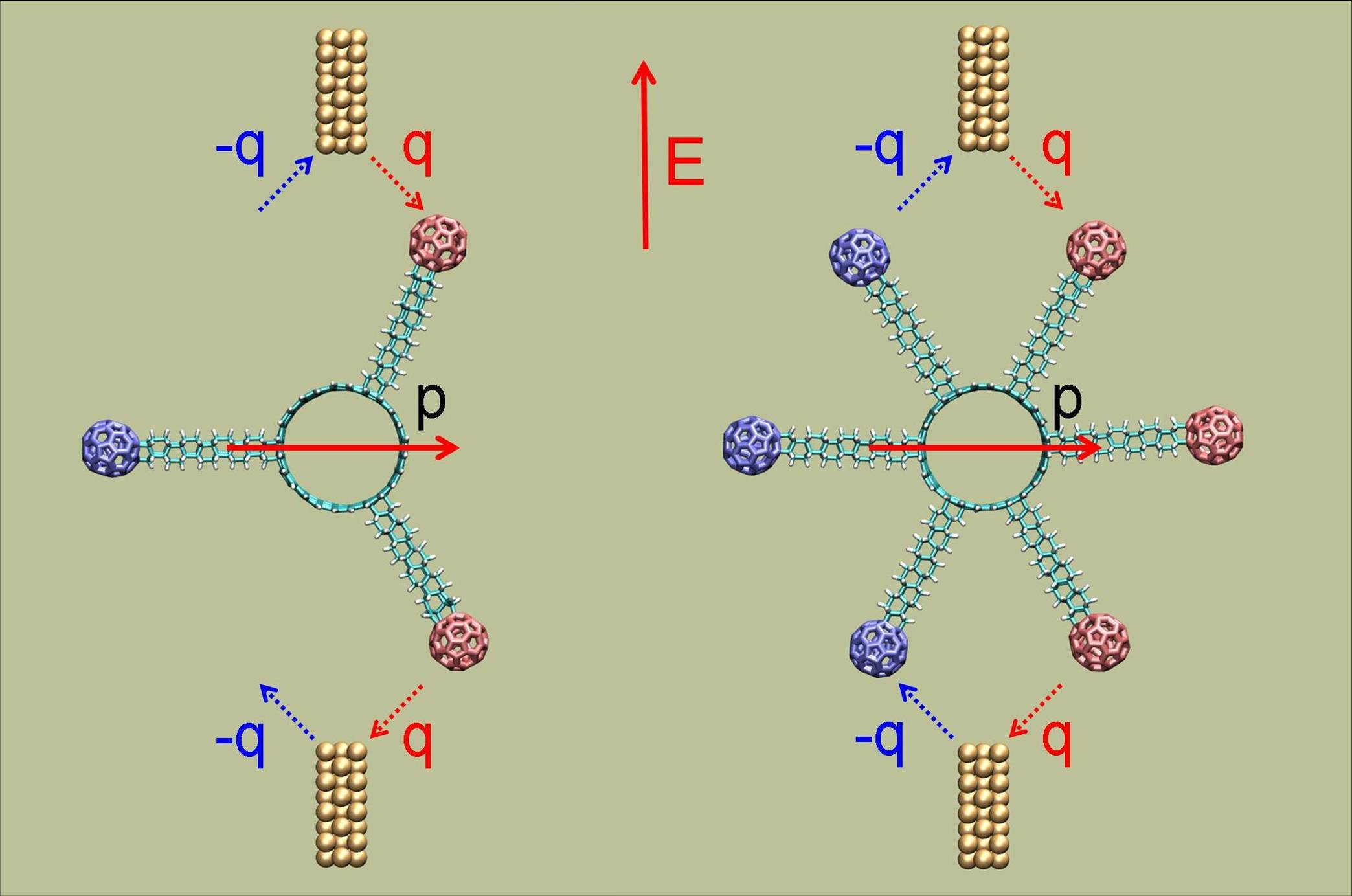 An electron-tunneling molecular motor, powered by static electric fields.